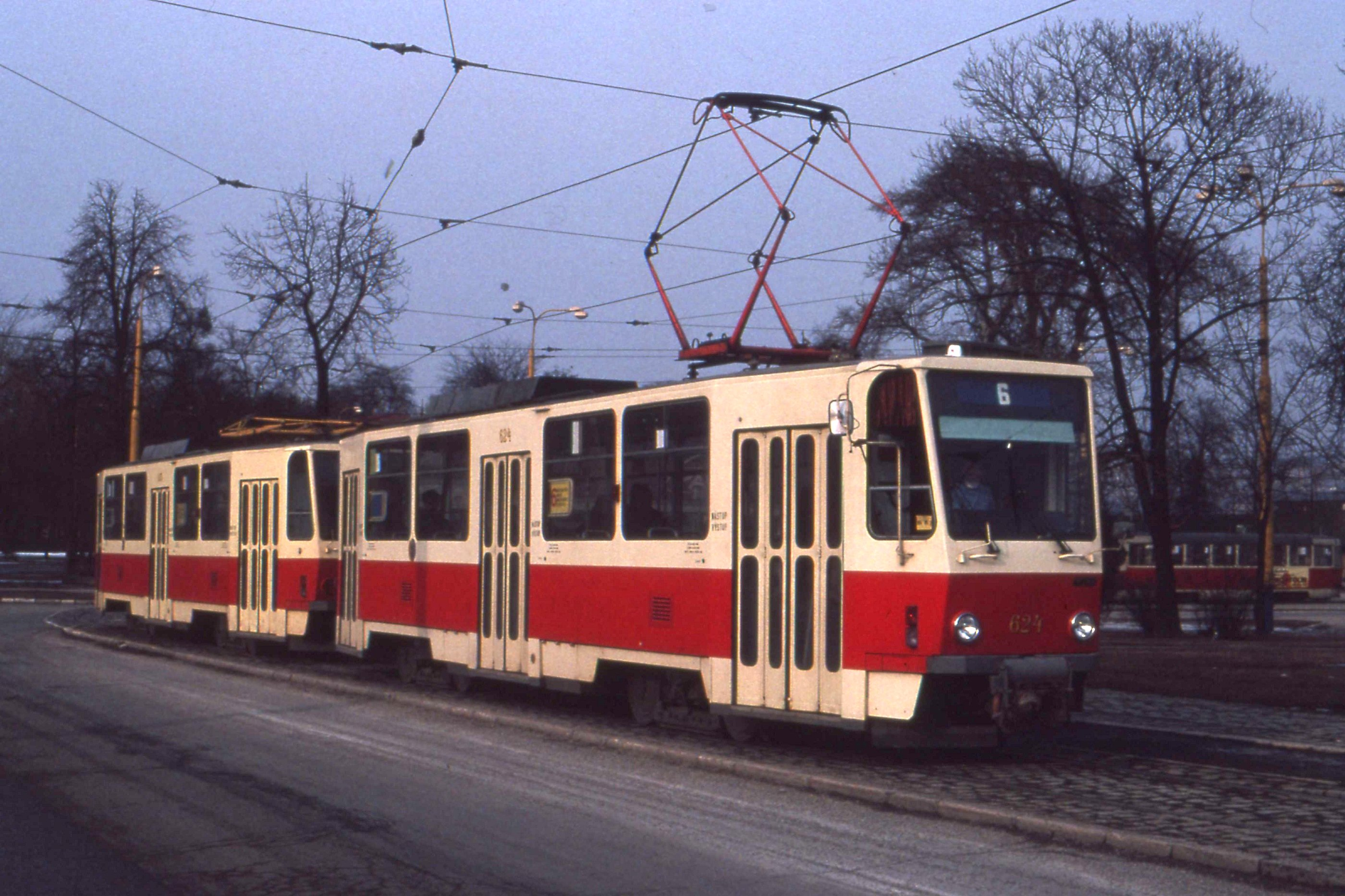 Tatra T6A5 trams in Košice, Slovakia. From Autumn 1992, Dopravný podnik mesta Košice, a.s. acquired 30 Tatra T6A5 trams including 624 which was operating route 6. One of the first series of T6A5, whose Wikipedia page is here